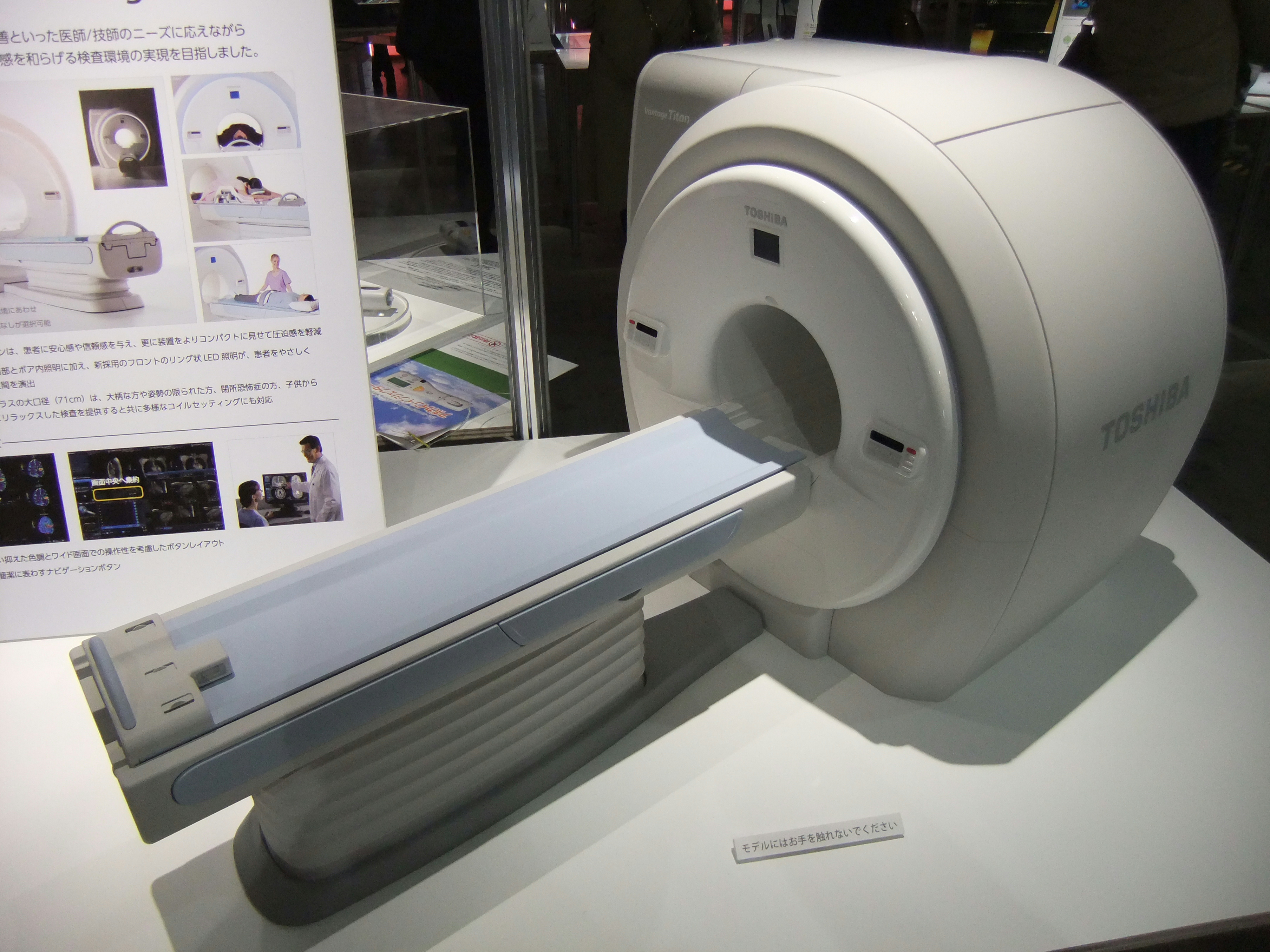 MRI Vantage Titan MRT-2004, manufactured by Toshiba Medical Systems Corporation. Good Design Award 2012